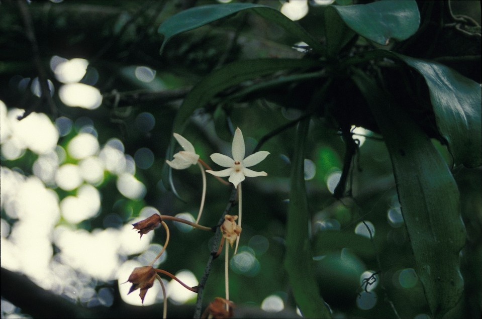 Syn. Angraecum bilobum. These were thought by growers to be parasitizing and killing their trees. Our conclusions were that the orchids were just finding brightly lit places to grow; termites and phytophthora were killing the trees. Sick trees had more light reaching their branches, hence, more orchids, and the appearance of a cause-and-effect relationship. Aerangis biloba Syn. Angraecum bilobum. These were thought by growers to be parasitizing and killing their trees. Our conclusions were that the orchids were just finding brightly lit places to grow; termites and phytophthora were killing the trees. Sick trees had more light reaching their branches, hence, more orchids, and the appearance of a cause-and-effect relationship.